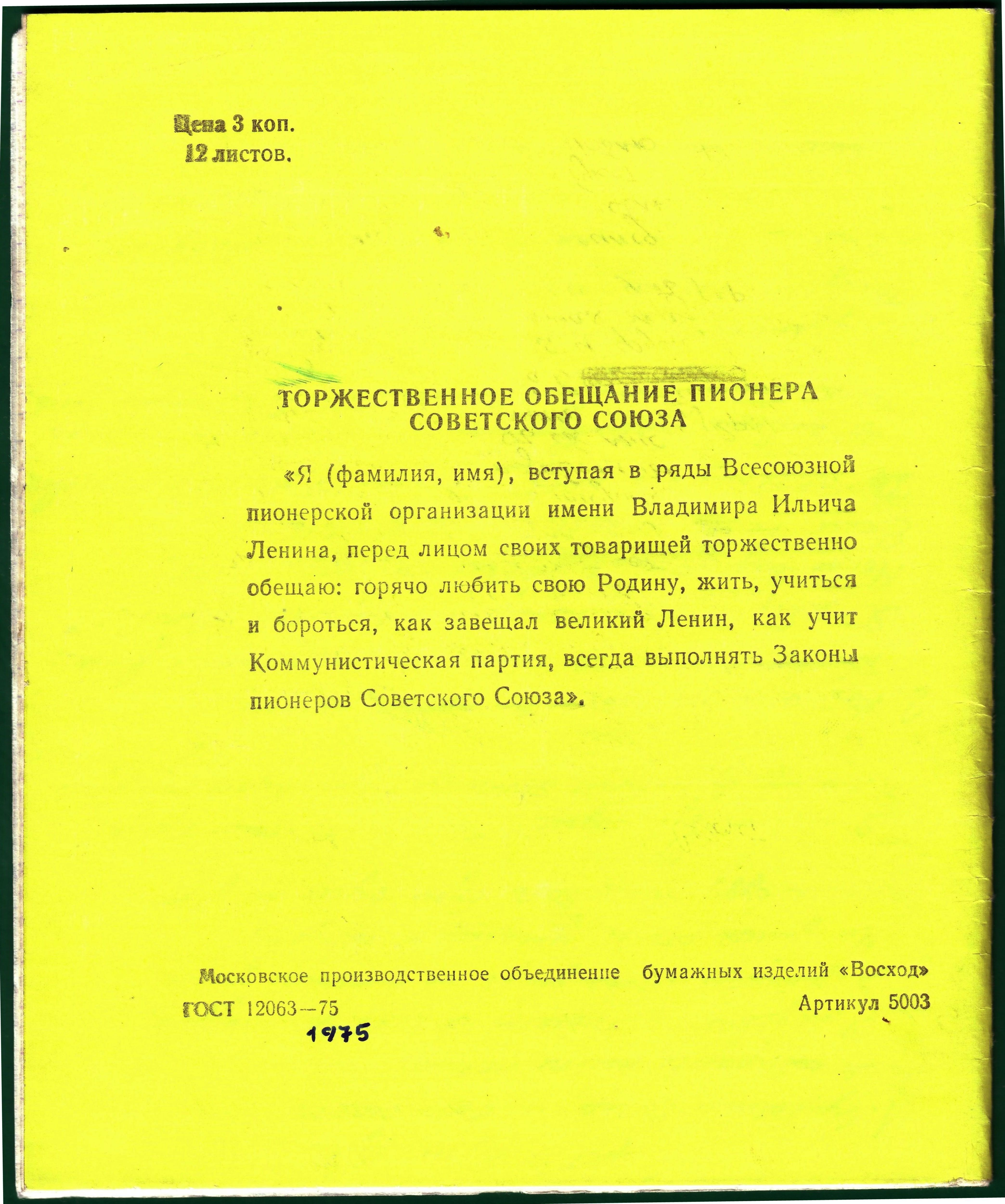 Back side of a standard Soviet schoolchildren's scrapbook, with the text of the Pledge of Young Pioneers. It was printed in a printshop in Khamovniki, Moscow, not earlier than 1975.